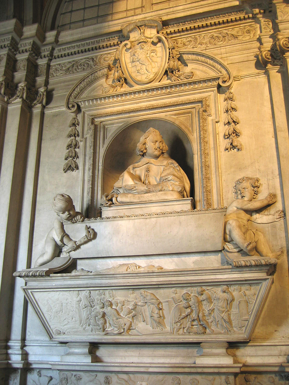 Tomb of Francesco Raimondi by Andrea Bolgi and Niccolò Sale (1640s). In the Cappella Raimondi, San Pietro in Montorio, Rome. Picture by User:Torvindus.